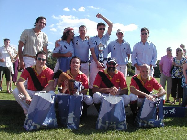 2007 Roehampton Trophy winners Los Dientes: Oscar Mancini, Sebastian Dawnay, Mathew Tooth and Lucas Fernandez. Runners up Los Diablos. Umpires Santiago de Astrada and Martin Roman